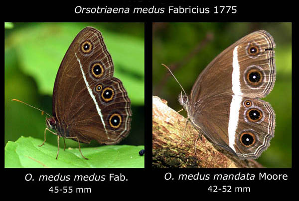 NE form Orsotriaena medus medus, at Namdapha, Arunachal Pradesh. South Indian form Orsotriaena medus mandata at Aralam sanctuary, Kannur, Kerala. Apatwardhan 18:29, 8 July 2007 (UTC)